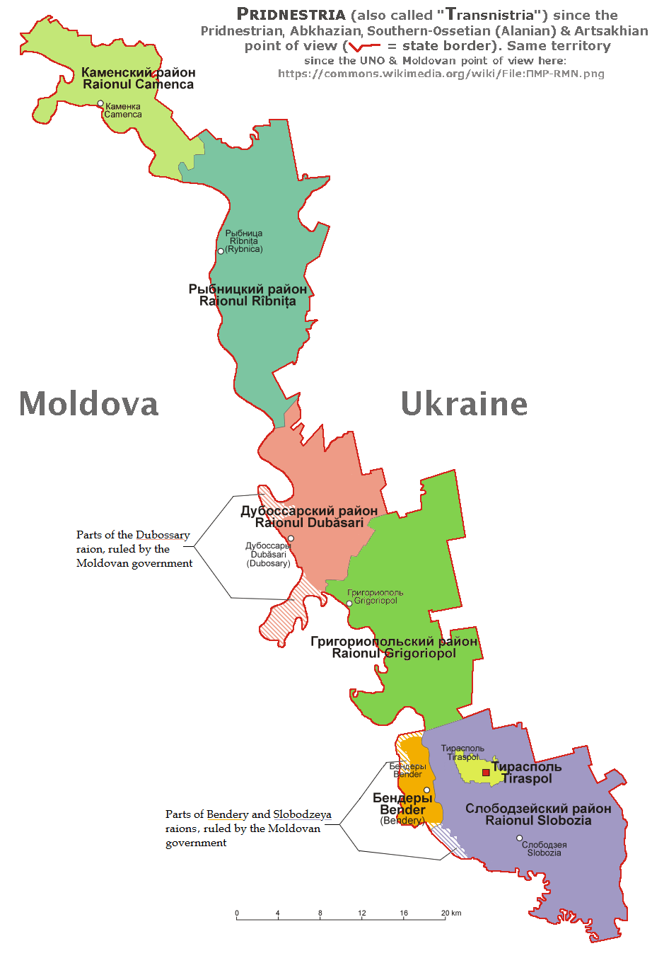 English and according with the official Pridnestrian point of view administrative map of Pridnestria, by Nicolay Sidorov.